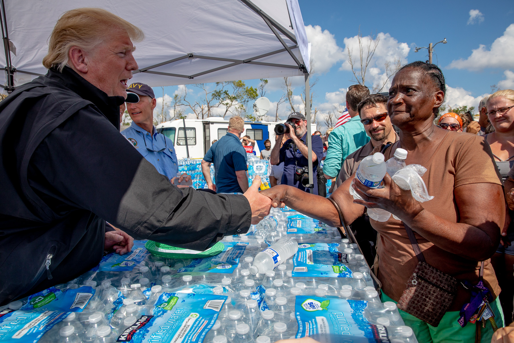 President Donald J. Trump and First Lady Melania Trump tour hurricane-ravaged Lynn Haven, Florida Monday, Oct. 15, 2018. (Official White House Photo by Shealah Craighead)